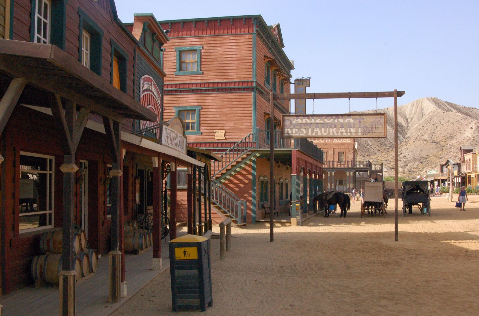 In front of the restaurant sign in Mini Hollywood